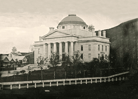 Daguerreotype photograph of the second Vermont State House, designed by Ammi Burnham Young, c. 1850. Collection of the Vermont Historical Society.